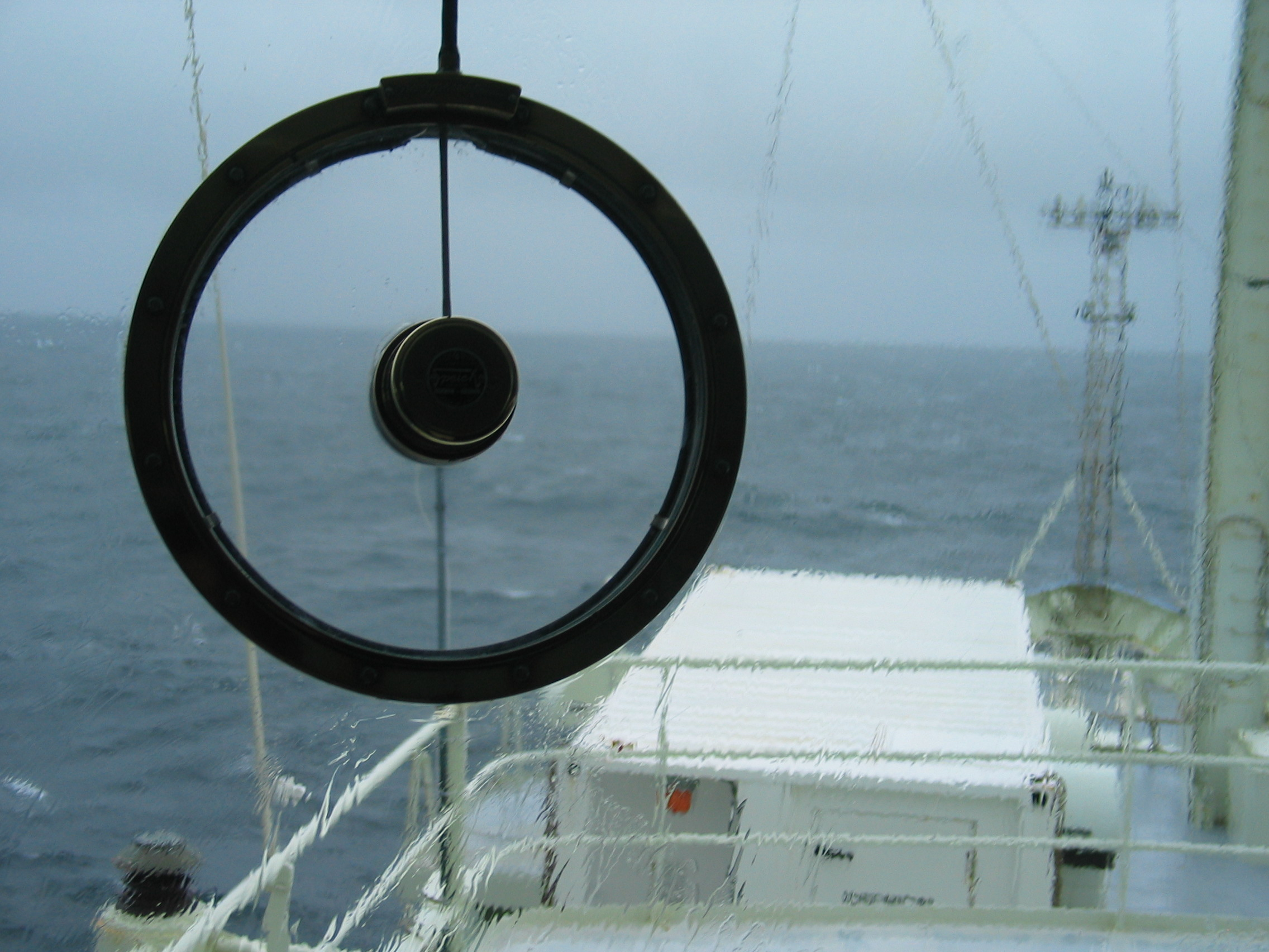 A rotating window wiper on the R/V Knorr. The round part has two layers of glass; the outer layer spins very fast.